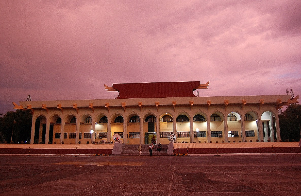 ARMM Regional Building